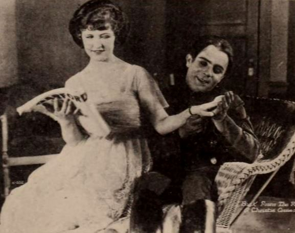 Still from the American comedy short film Back from the Front (1920) with Laura La Plante and Bobby Vernon, on page 47 of the December 11, 1920 Exhibitors Herald.